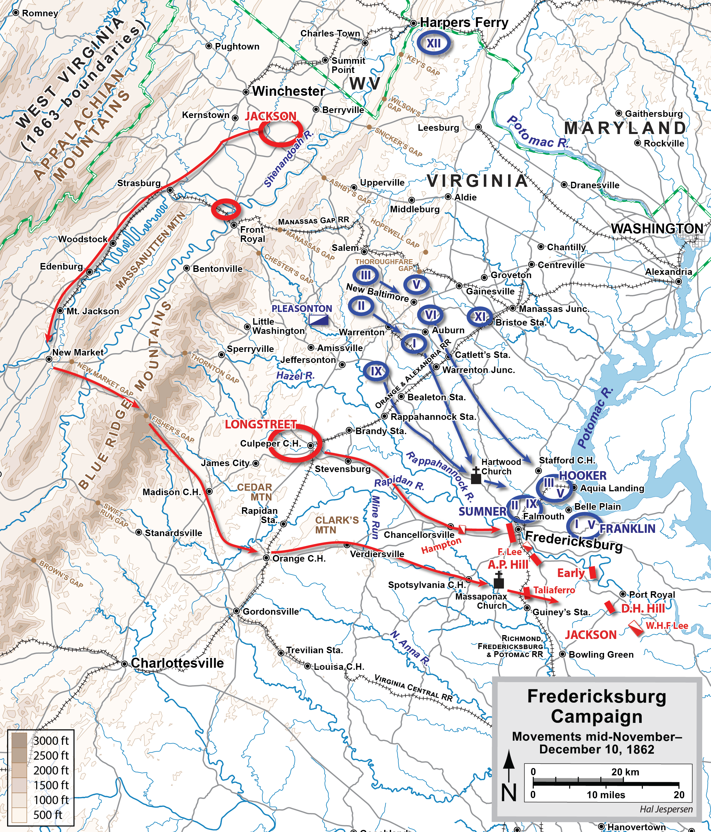 Map of the initial movements of the Fredericksburg campaign of the American Civil War.